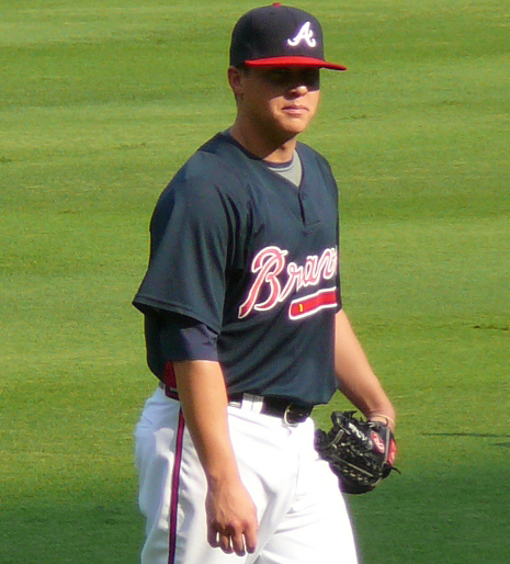 If used somewhere other than Wikipedia, Nelson, by name. 03:40, 20 September 2009 . . Chrisjnelson . . 465×514 (260 KB)